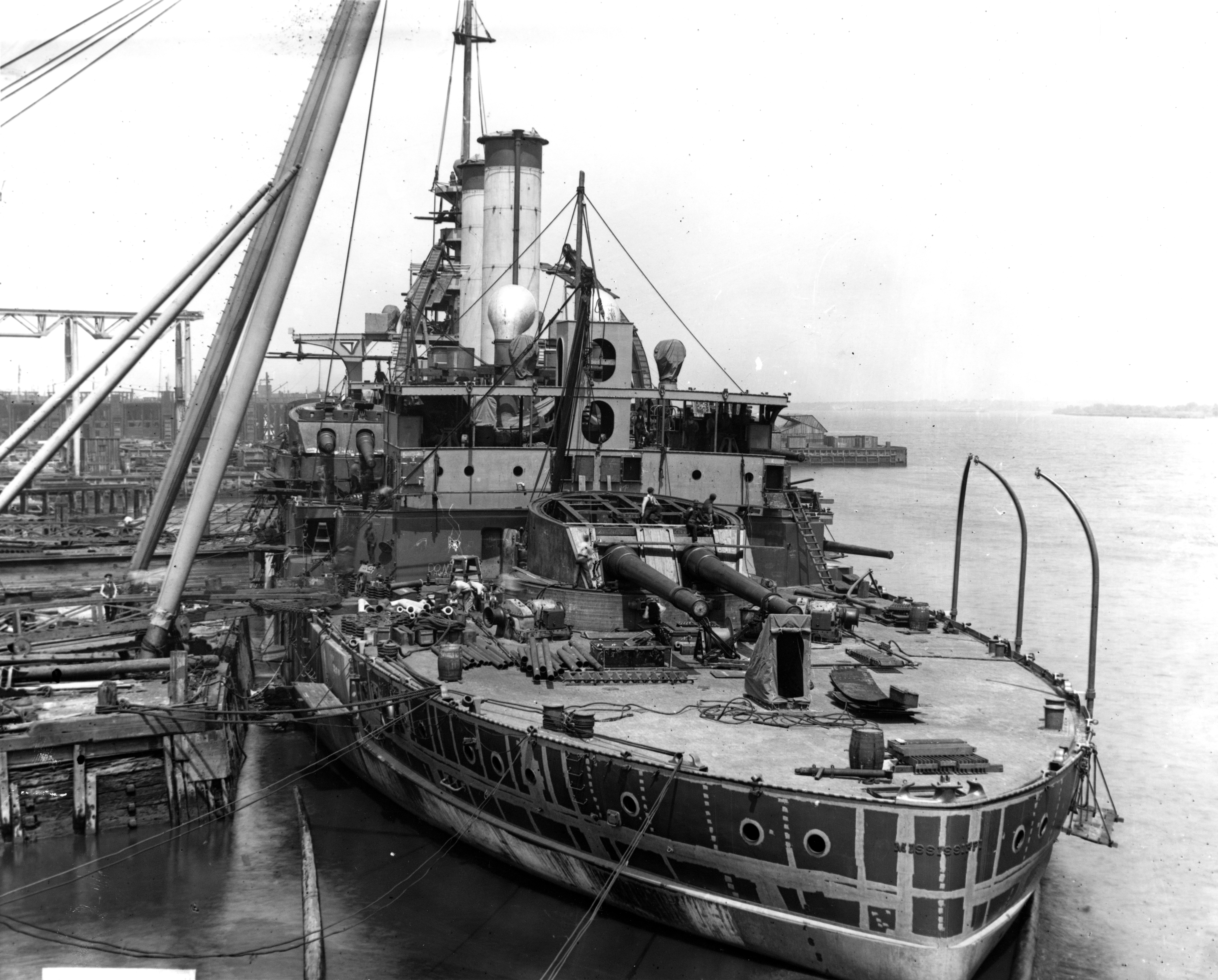 USS Mississippi (BB-23) under construction in 1907 at the Cramp shipyard, Philadelphia, Pennsylvania.